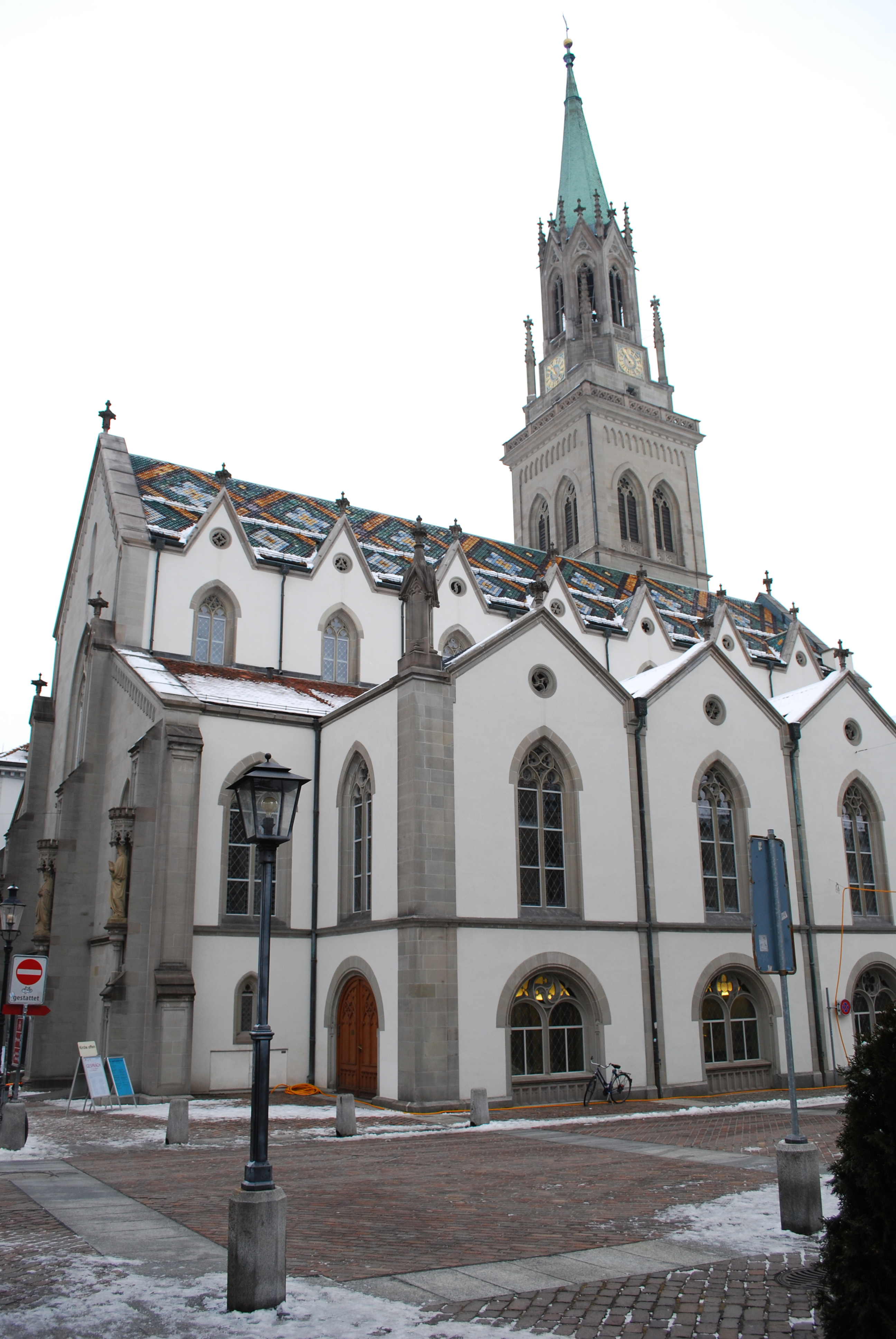 Kirche St. Laurenzen, St. Gallen